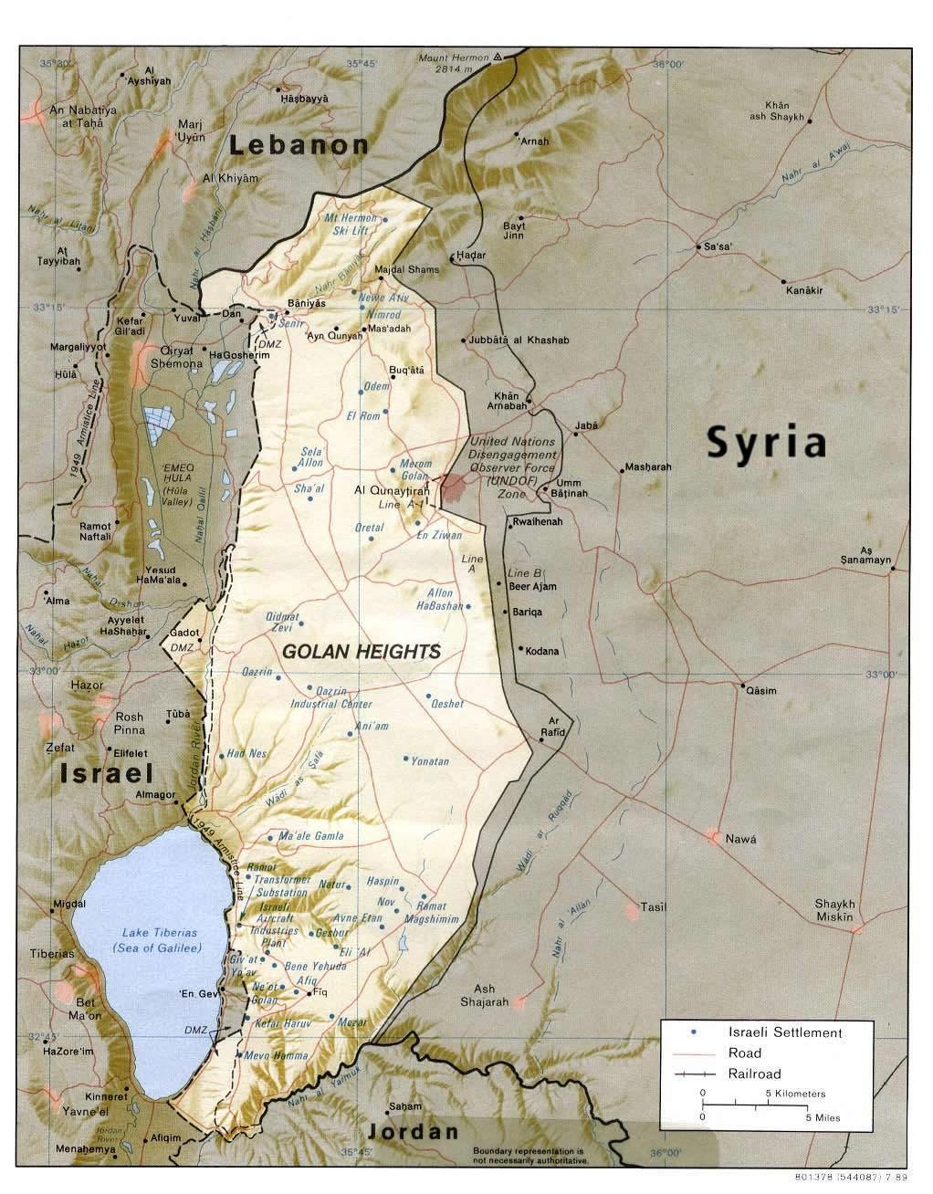 I created this image myself, by modifying the existing Image:Golan_heights_rel89A.jpg, which was itself a modified version of a modified CIA (and hence public domain) Image:Golan_92.jpg. Previous modifications were done to provide a map that was impartial about the contentious issue of which country owns the Golan Heights. The previous modifications were effective in creating a neutral map by removing the names "Syria" and "Israel" from the contentious territory and left only the label "Golan Heights". The present modification was intended solely to restore the names and locations of villages that were included on the original CIA map but had been (inadvertently) moved or erased by relocating the country titles. Due to the recurrent conflict involving villages and settlements within the Golan Heights, I feel that it is important to retain the locations on the map. As with the earlier modifications of this file, I hope that this modification will be seen as a fair compromise that also maintains the cartographical accuracy of map. I make no copyright claim on my modification; its copyright status is the same as its source. dp_roberson 15:44, 21 October 2007 (UTC)